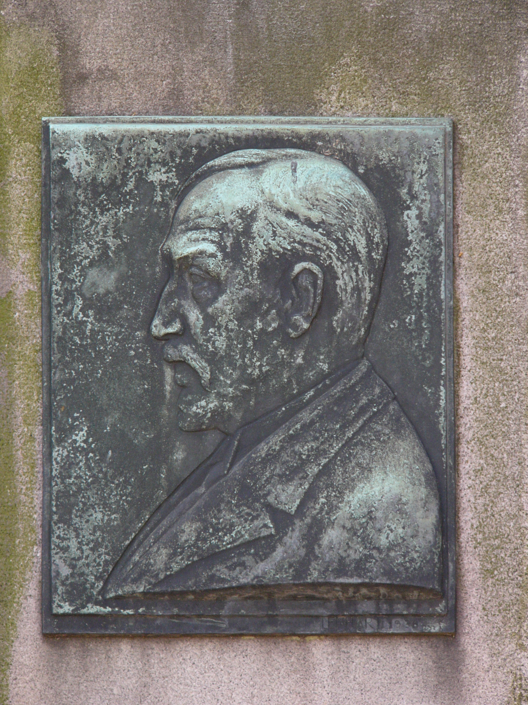 Relief of an artist Karel Wellner (1875-1926) by Karel Lenhart (in 1936) in Olomouc (Czech Republic).